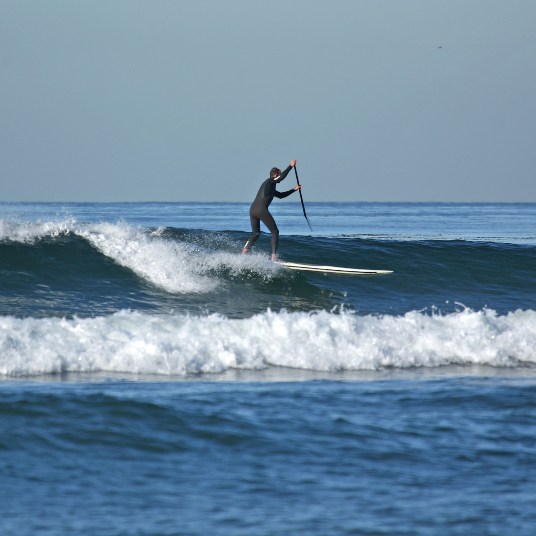 Paddle surfing in San Diego, California, January 2008